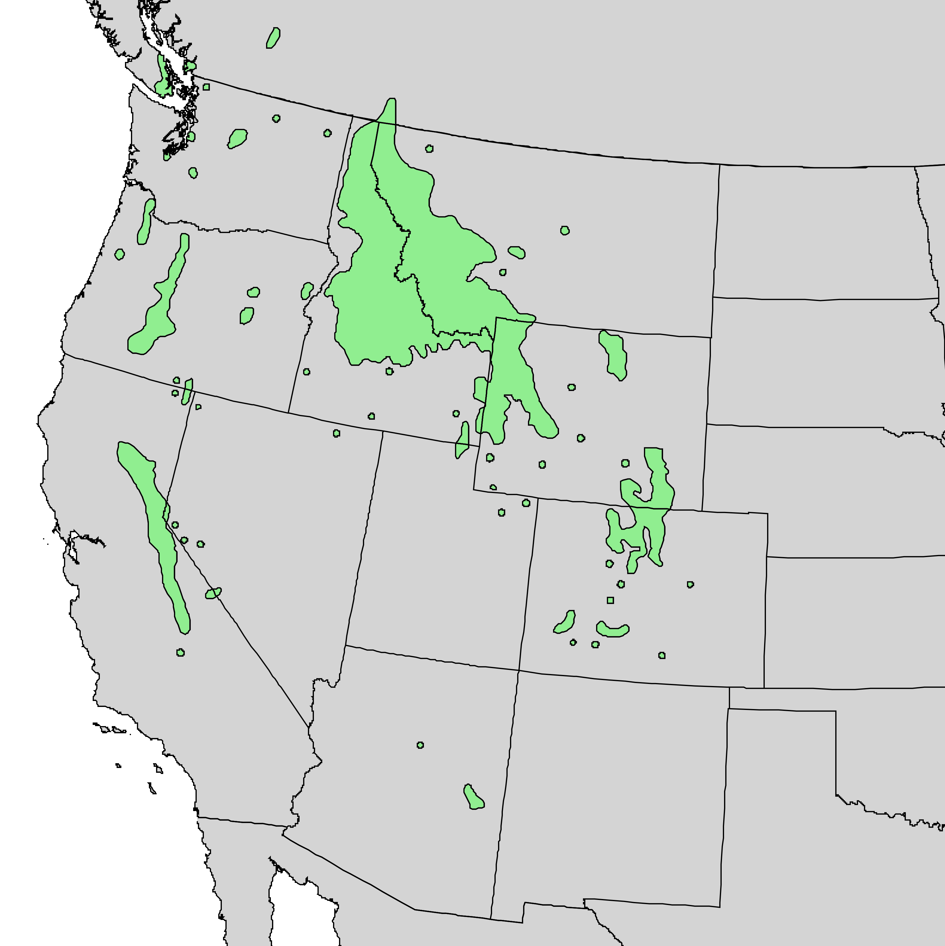 Natural distribution map for Salix geyeriana (Geyer willow)